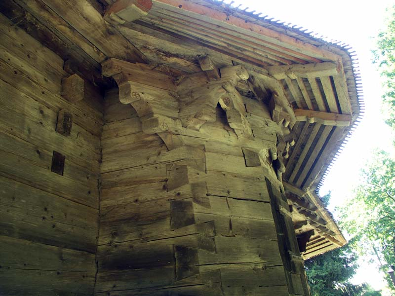 Călineşti Susani, consoles, northern side. Photo: Alexandru Baboş, July 2006.